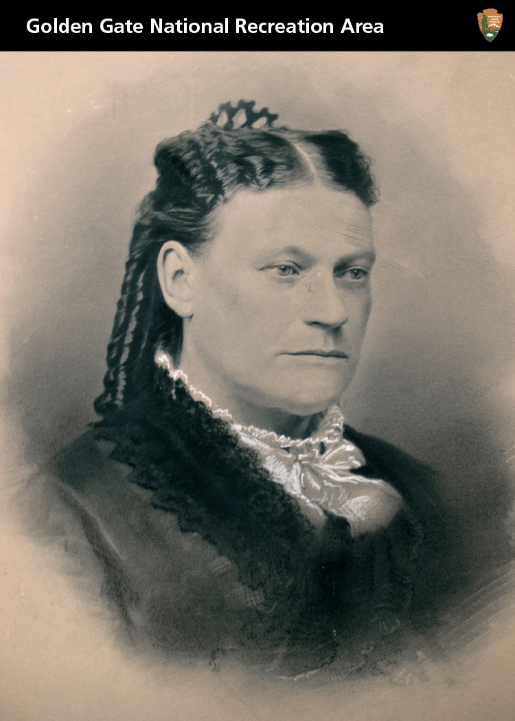 Caring Healer and 19th Century Businesswoman Only one photo exists that is believed by her relatives to be Juana Briones. This Mexican-American businesswoman, healer and landowner lived on the Presidio as a young woman. Juana made many powerful friends through her generosity and healing skills, allowing her to be one of the few to retain Mexican Land Grants after California statehood.